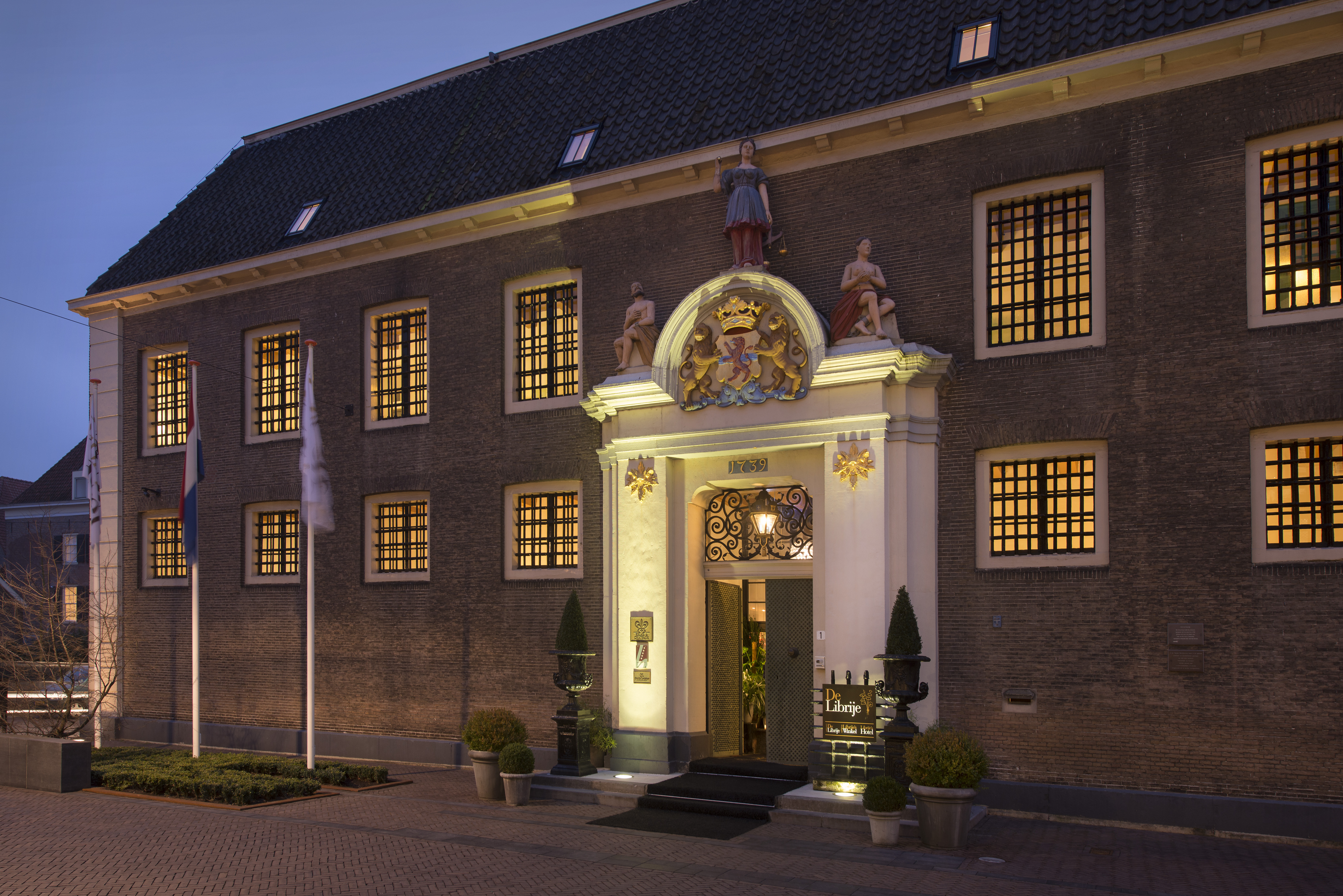 Front of the new building of De Librije, a famous restaurant in the Netherlands